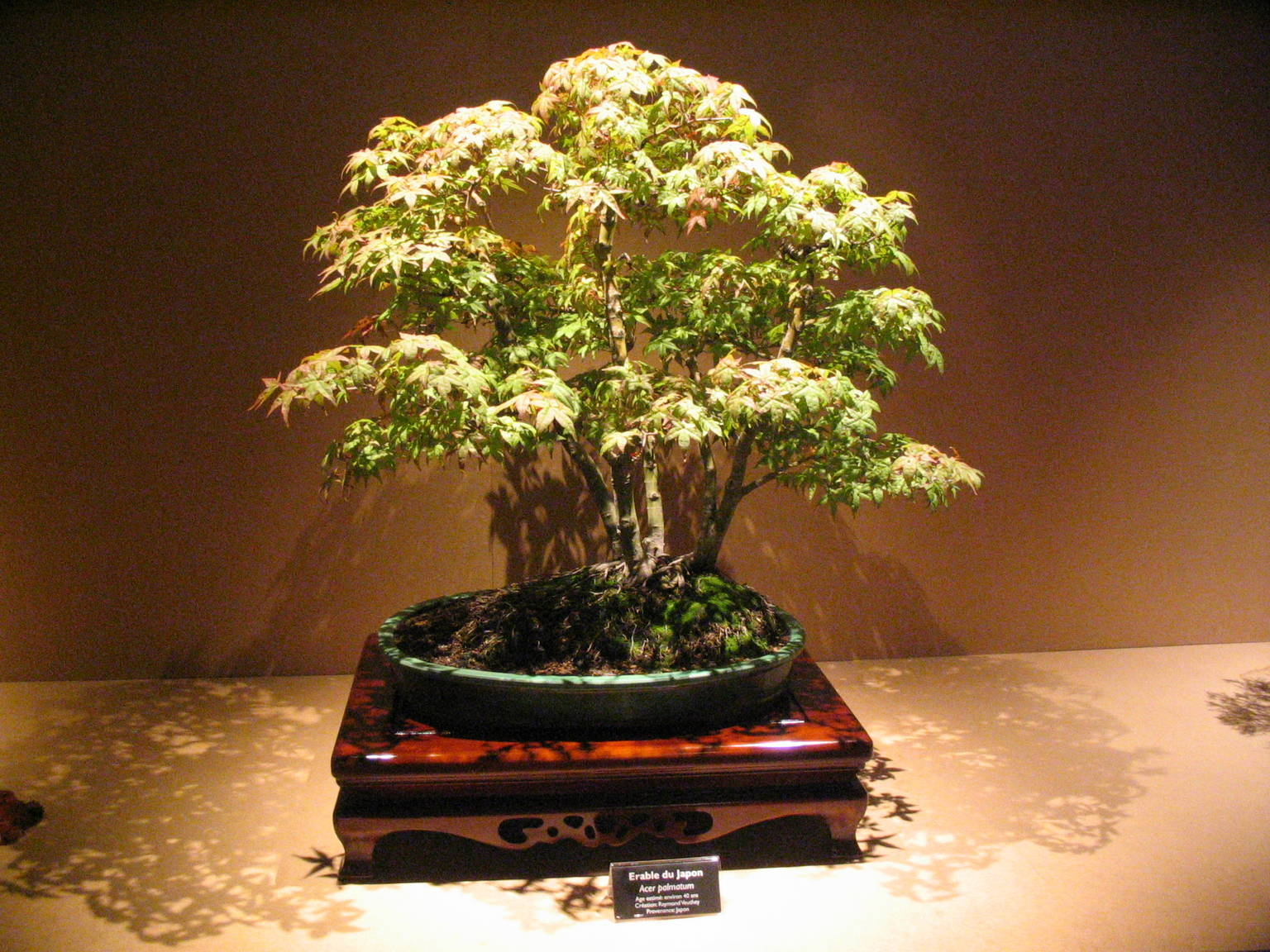 Bonsai at the "Foire du Valais" (Martigny, Switzerland).